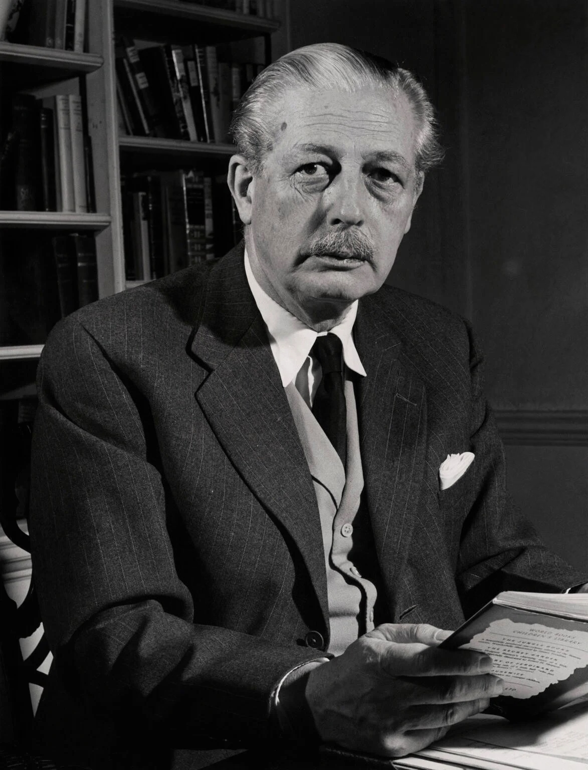 bromide print